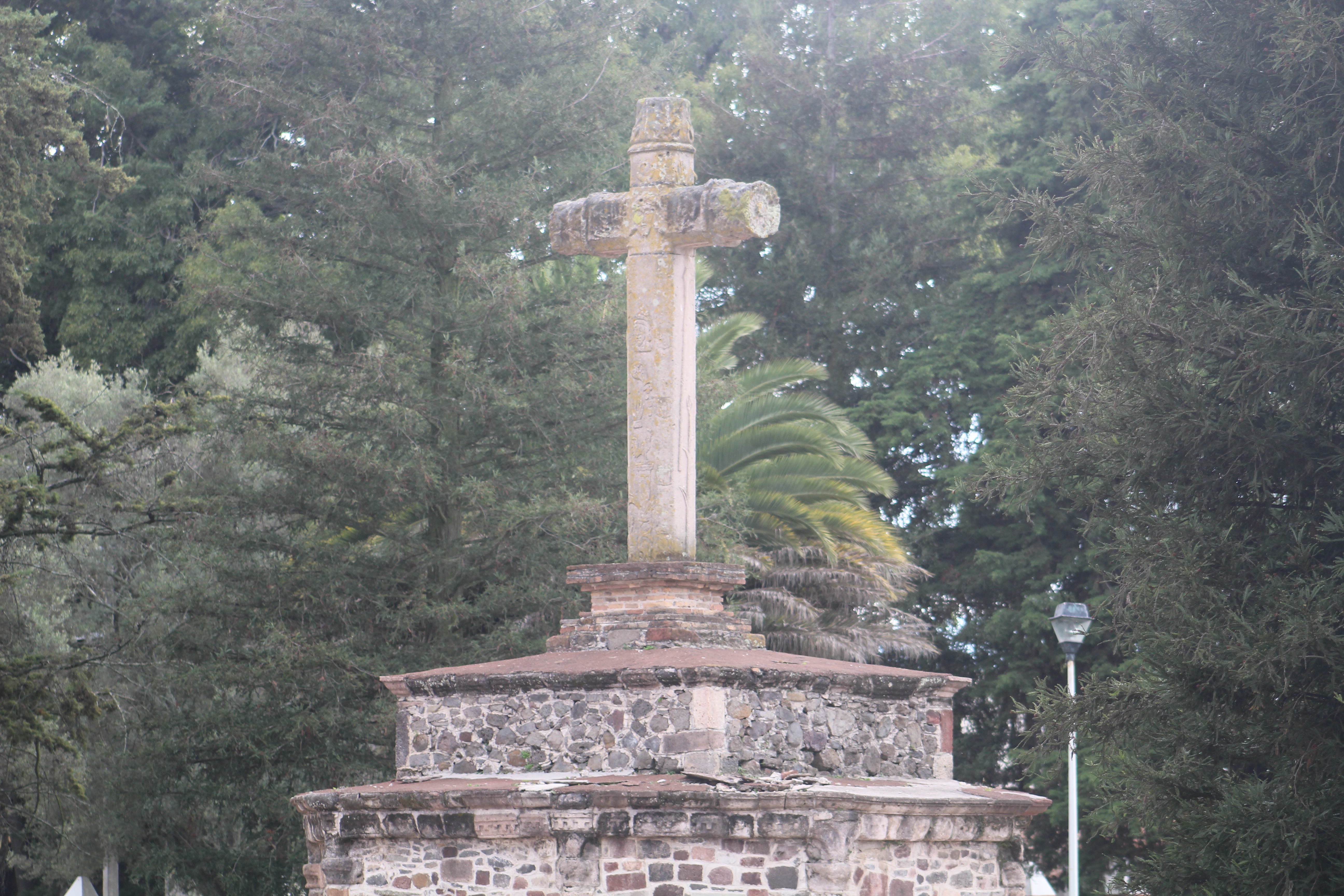 Cruz del Atrio in front of the Church of St. Peter and St. Paul in Jilotepec, Estado de Mexico, Mexico.